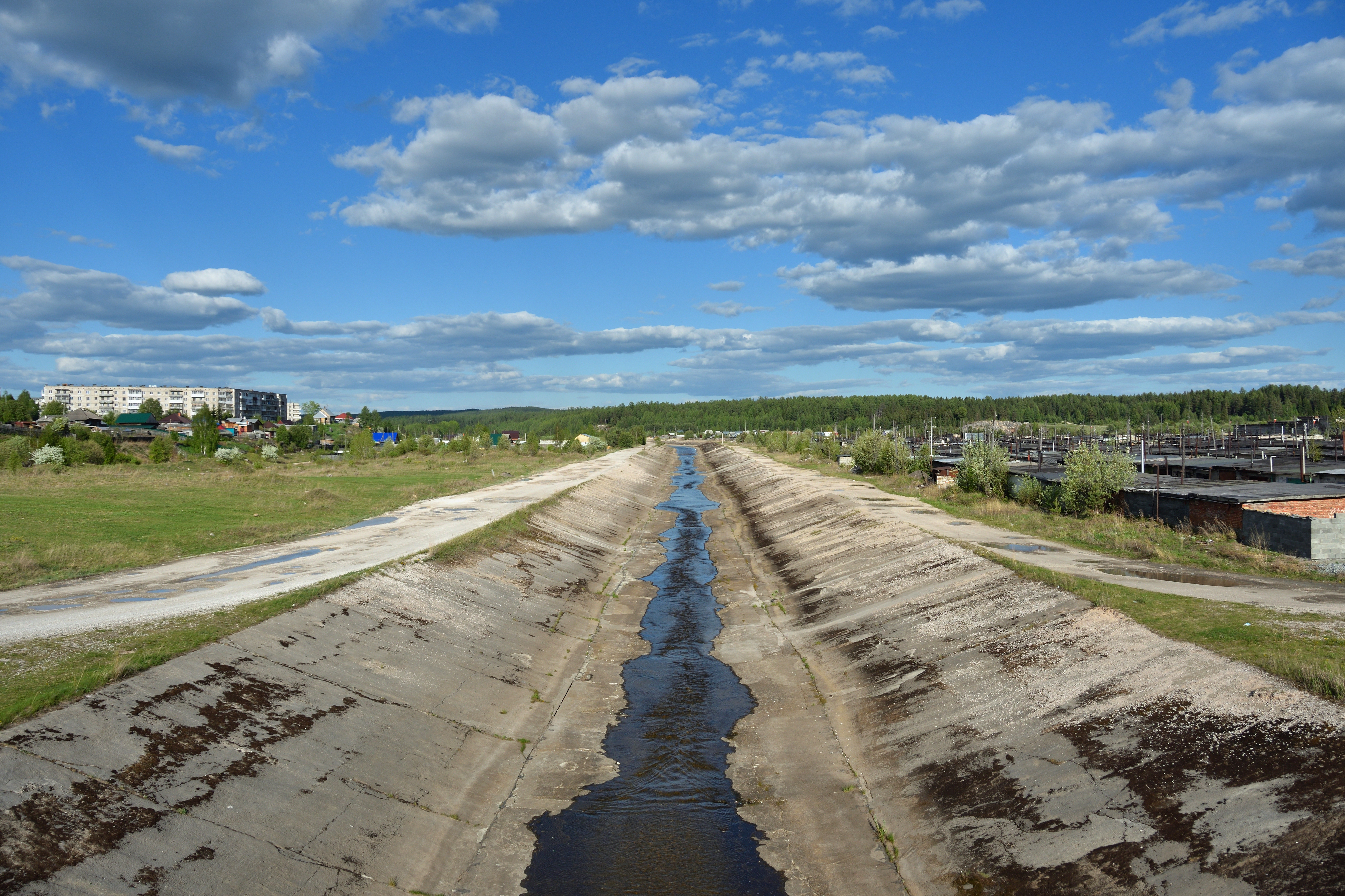 Kolonga River in Severouralsk, Sverdlovsk oblast, Russia